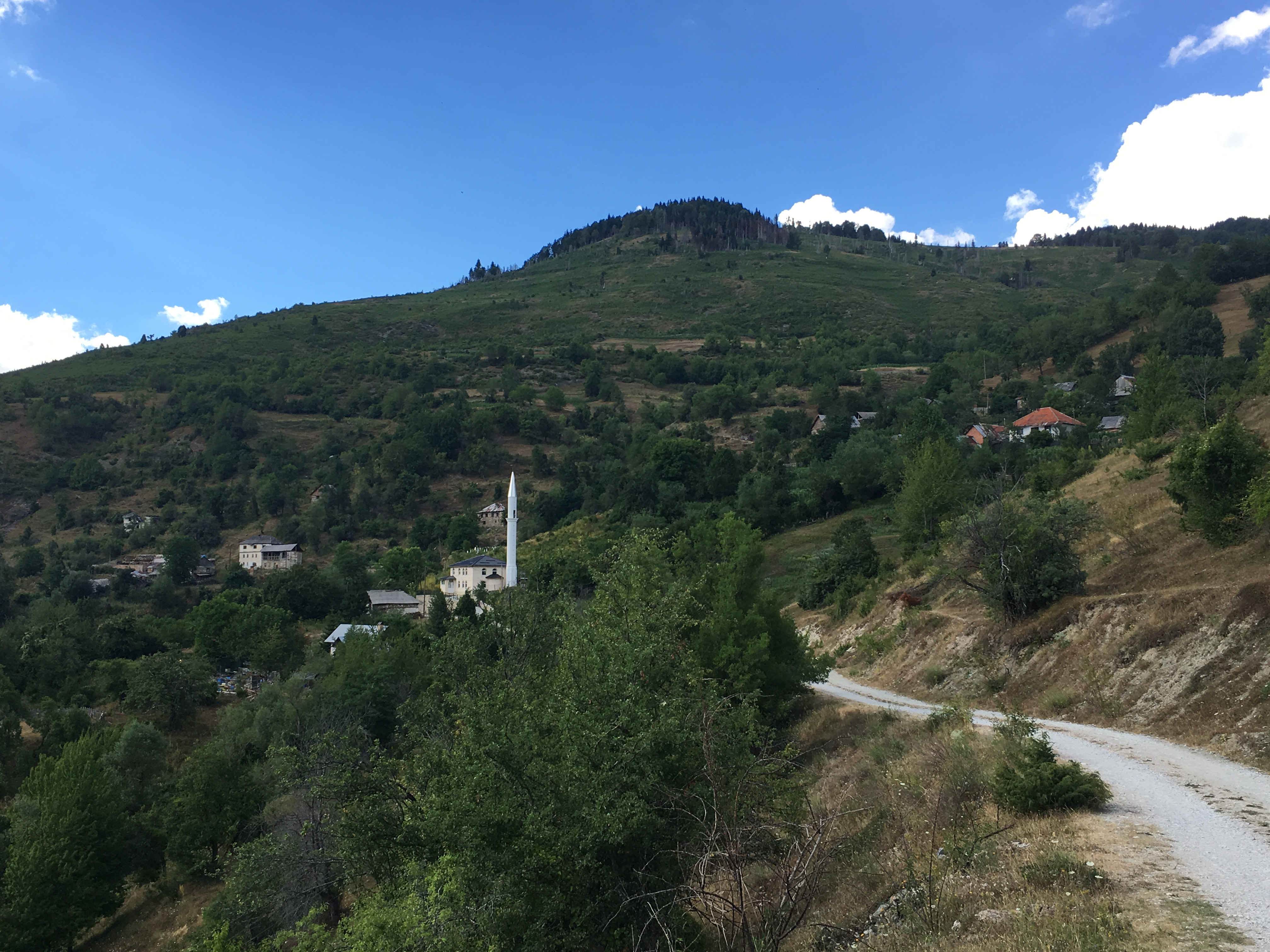 View of the village of Nistrovo